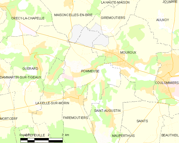 Map of French municipality Pommeuse